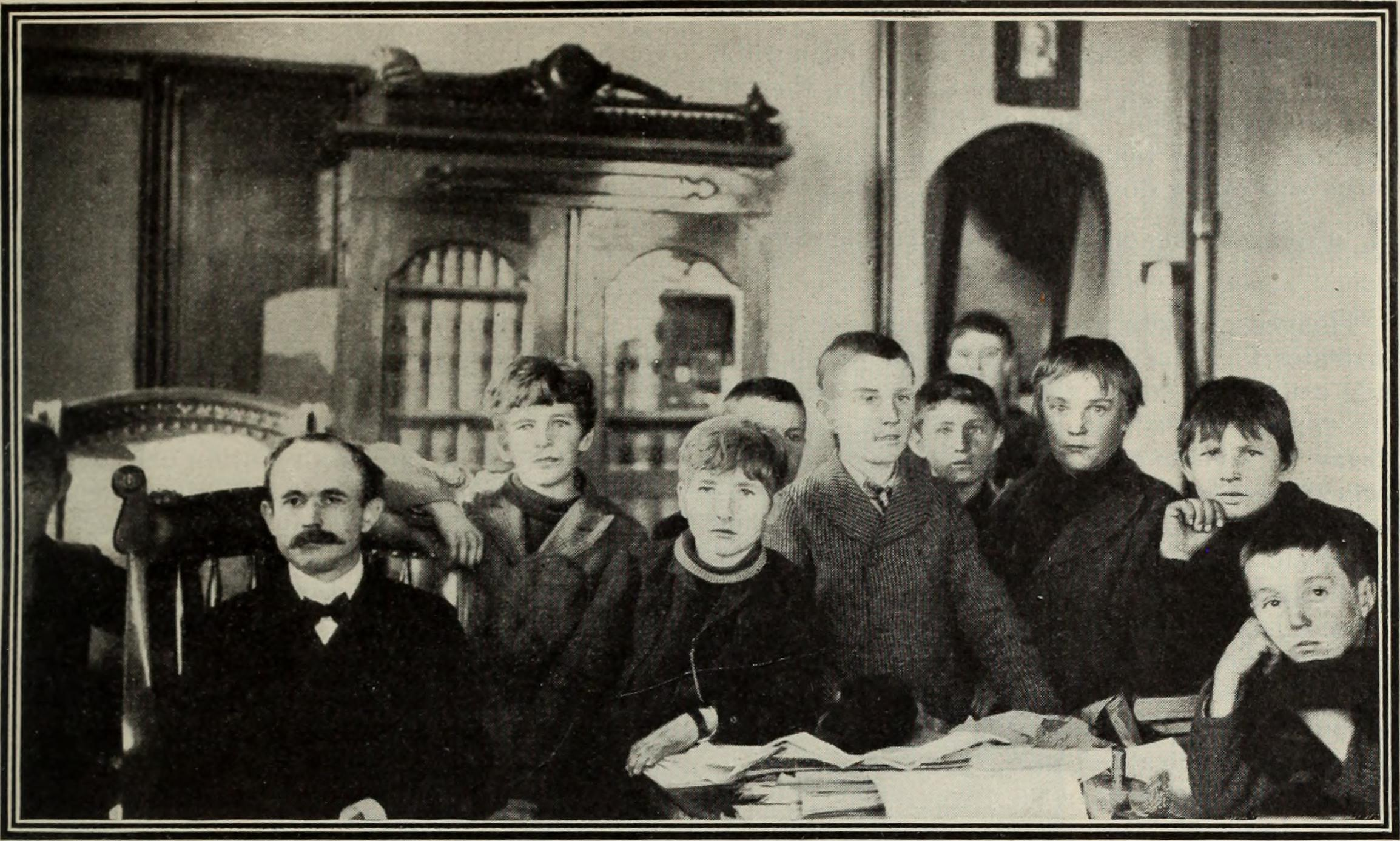 Judge Ben B. Lindsey, of Denver, Colorado, with some of his boys. Title: Review of reviews and world's work Year: 1890 (1890s) Authors: Subjects: Publisher: New York Review of Reviews Corp Text Appearing Before Image: THE ENGLISH SCHUM, IN WHICH THE SEVEN MEN ON EACH SlUE LOCK ARMS ANU SHOULDERS, FORMING A WEDGE. Text Appearing After Image: A CONFERENCE IN CHAMBERS. (Judge Ben B. Lindsey, of Denver, Colo., with some of his boys.) THE CHILDRENS COURT IN AMERICAN CITY LIFE. BY FRANCES MAULE BJORKMAN. SEVEN years ago, before there was such atiling as a juvenile court, a boy of nine wasarrested in Denver for burglary. He wasbrought into the criminal court, tried as a bur-glar, and sent to jail. He served a term of years,during which he learned thoroughly the tradewhich he had been accused of plying. When howas released he began to practice it in earnest.He was rearrested, recommitted, and, after a sec-ond term, turned loose again, a more accomplishedburglar than before. A few months ago he wassliot at by the Denver police in an attempt toescape a third arrest. He was captured andbrouglit into the Juvenile Court, still a mere childthat ought to have been going to school. Judge Ben B. Lindsey, who presides overthis tribunal, was confronted by a bold, hard-ened, and unnaturally sharp young expert incrime who had mystified the p